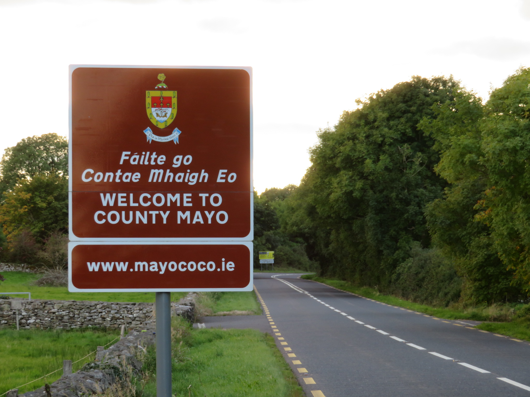 County border road sign welcoming travellers to County Mayo at the Roscommon–Mayo border on the N60 road, facing due west between Ballinlough and Ballyhaunis in Ireland.